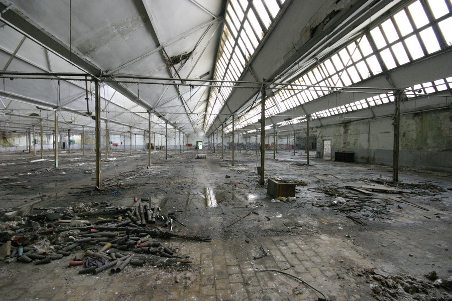 Factory Beogradski pamučni kombinat Srpski (latinica): Fabrika Beogradski pamučni kombinat